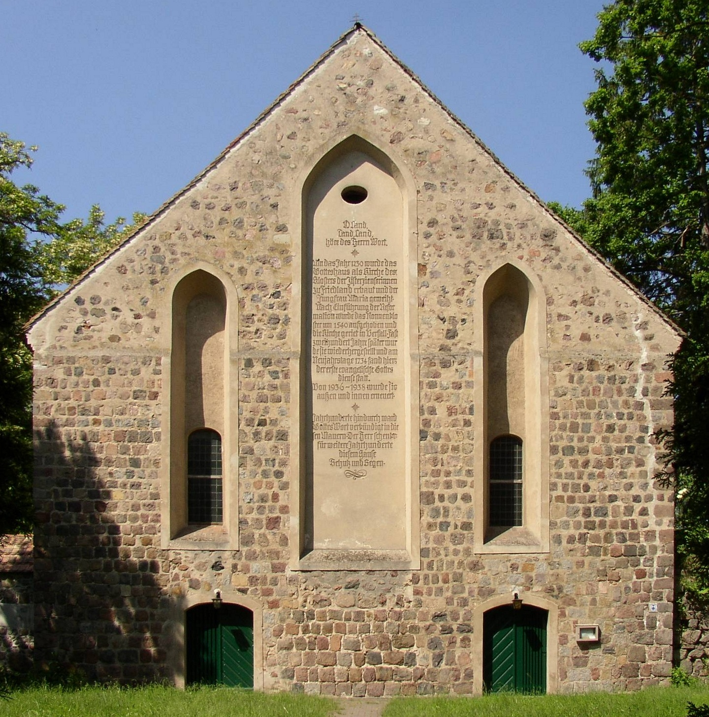 Church in Neuhardenberg-Altfriedland in Brandenburg, Germany